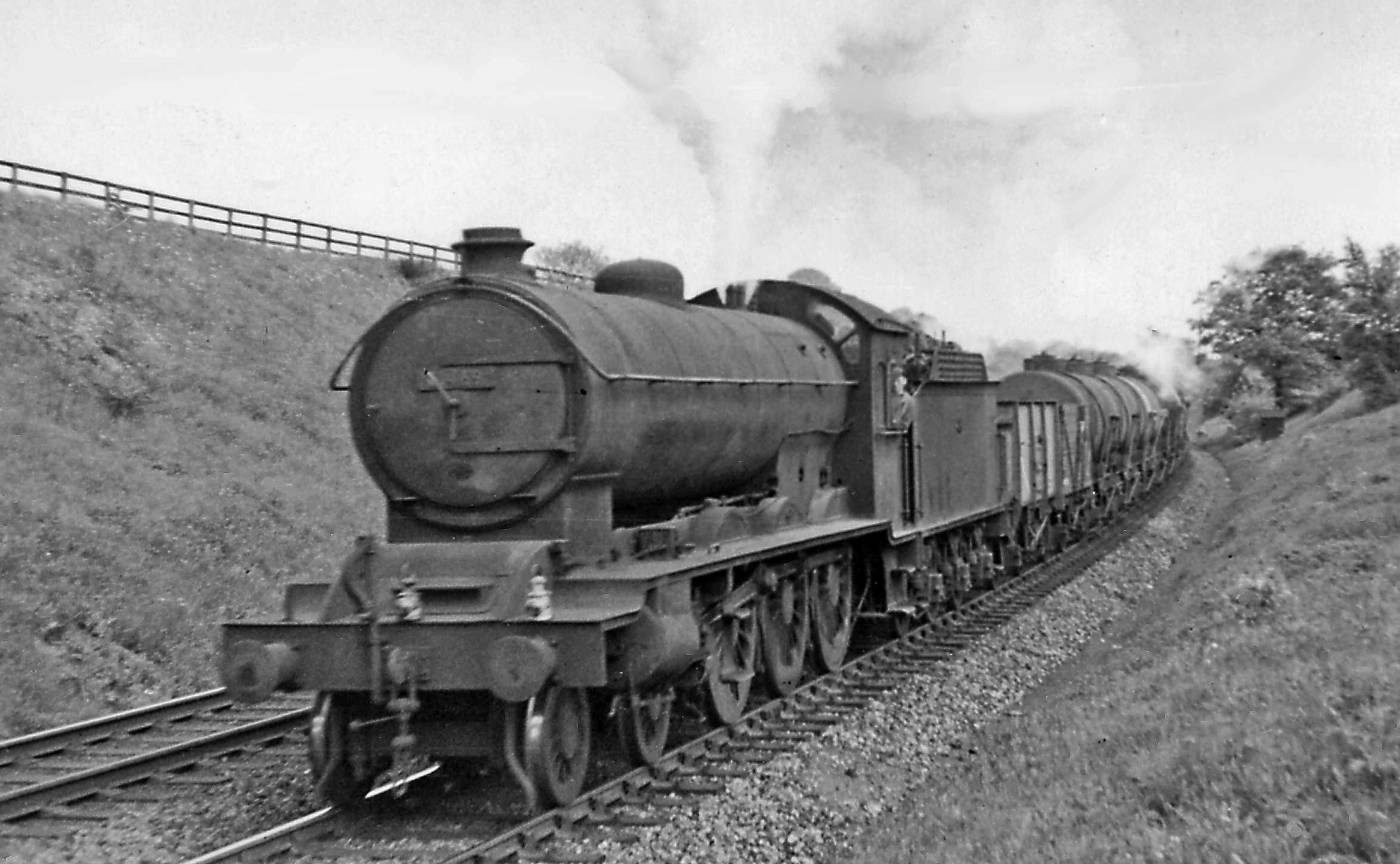 Down ECML oil train at Croxdale. View eastward, towards Ferryhill, Darlington and the South. The train is headed by the prototype Raven S3 B16 class 4-6-0, built 12/19 as No. 840 becoming LNER No. 1400 in 1946, then BR No. 61469 in 1949 and eventually withdrawn in 10/60.